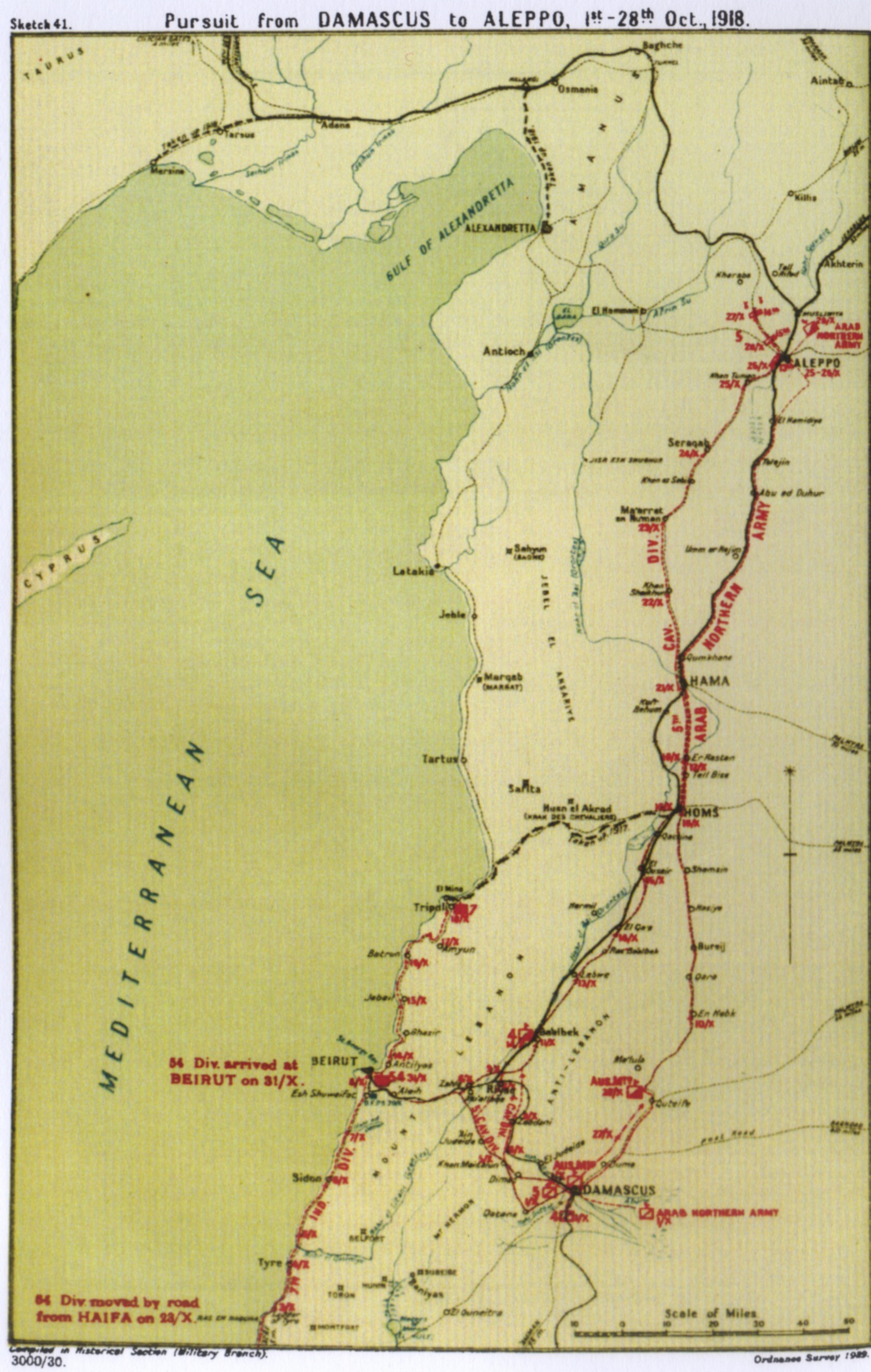 Falls Sketch Map 41 Damascus to Aleppo Other information Crown copyright access unrestricted